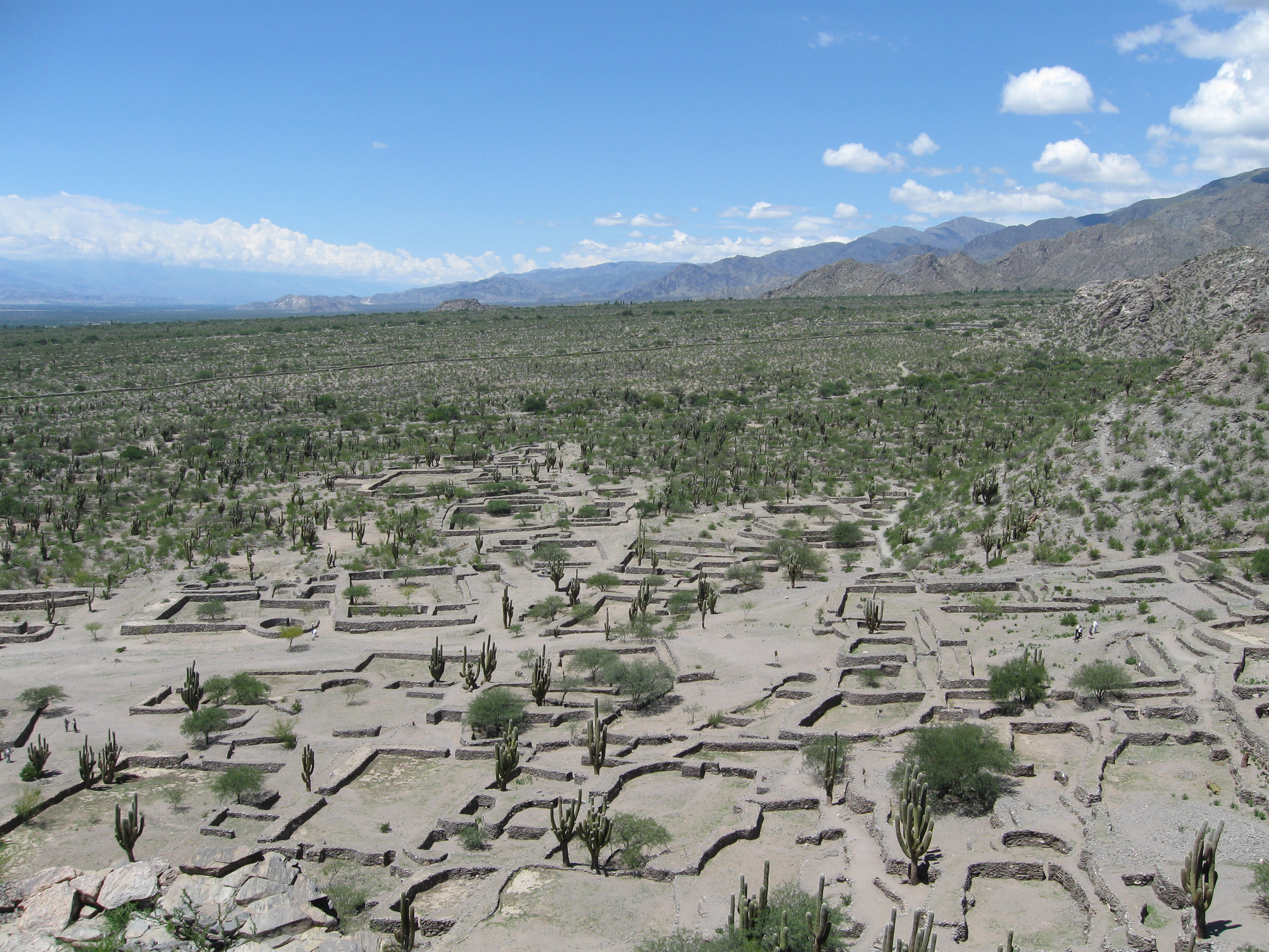 Ruinas de quilmes